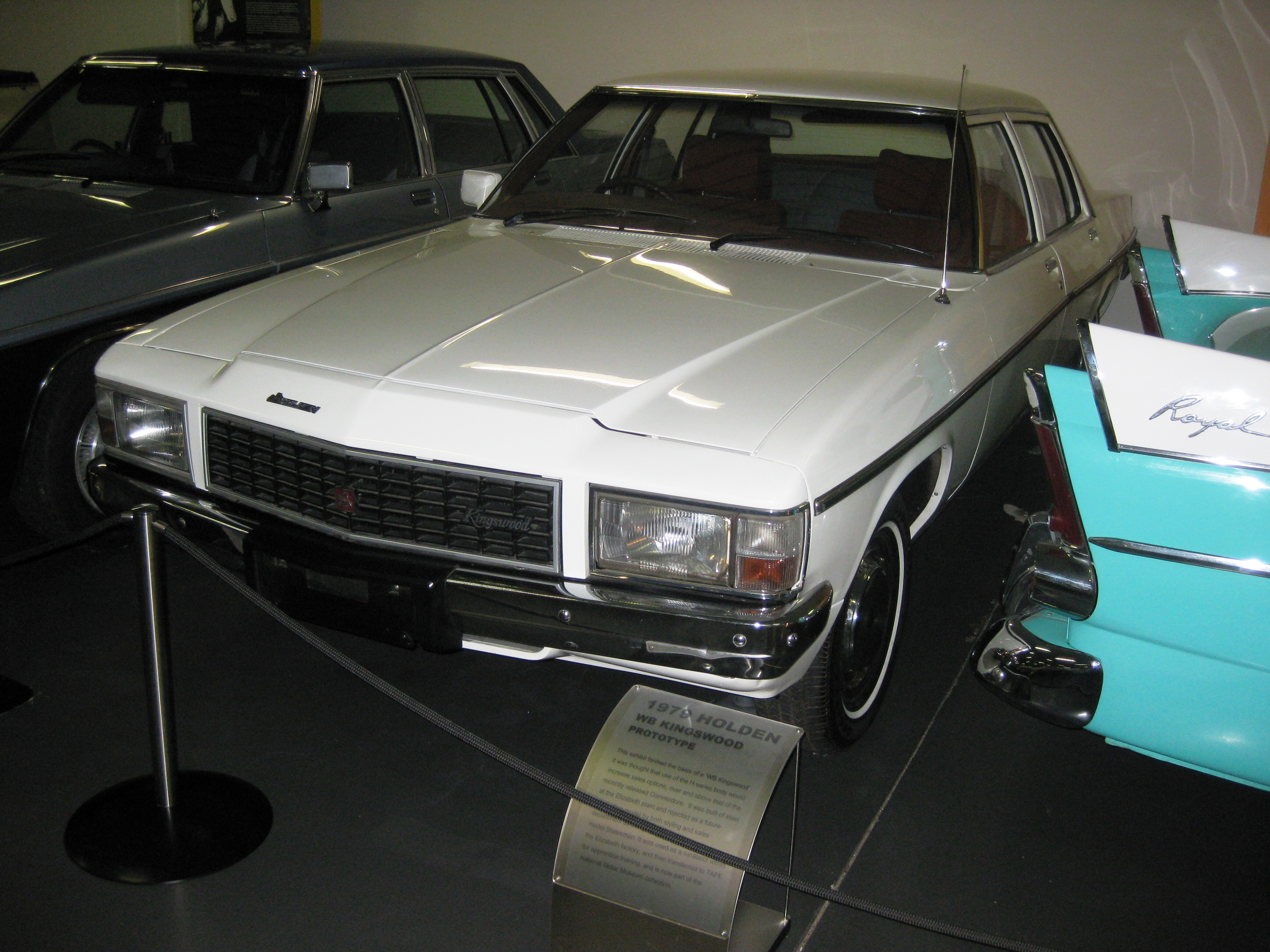 The Holden WB Kingswood Sedan prototype of 1979, as displayed at the National Motor Museum at Birdwood in South Australia in 2010. The project did not progress from prototype to production status.